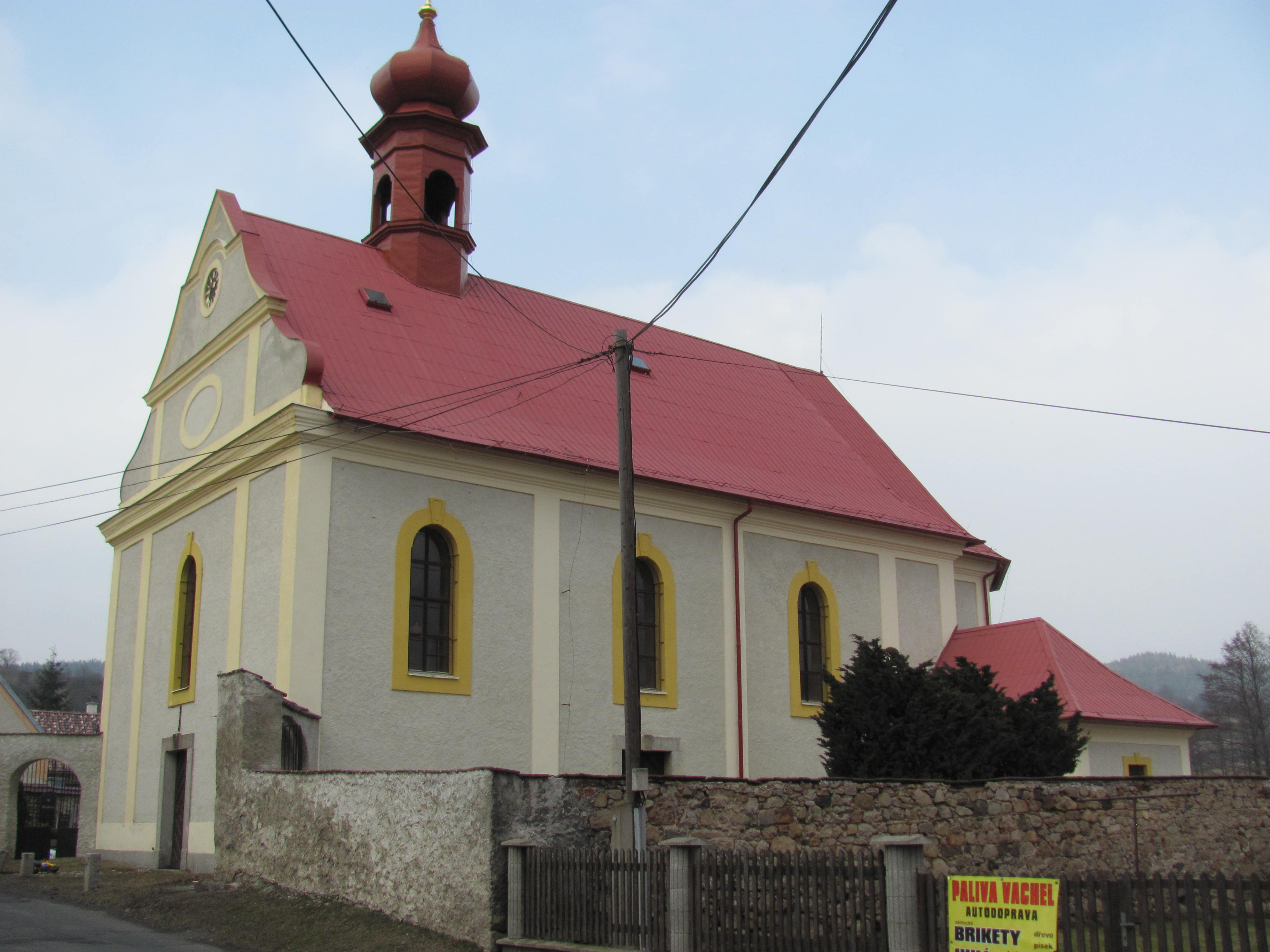 St. Michael church in Děpoltovice, (Karlovy Vary District), cultural monument